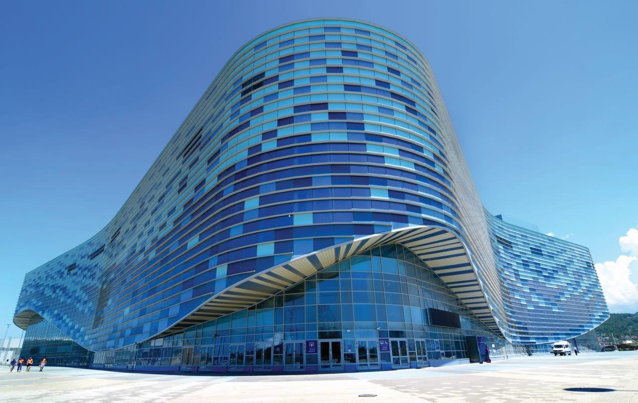 The Iceberg Skating Palace, built from scratch for the Games